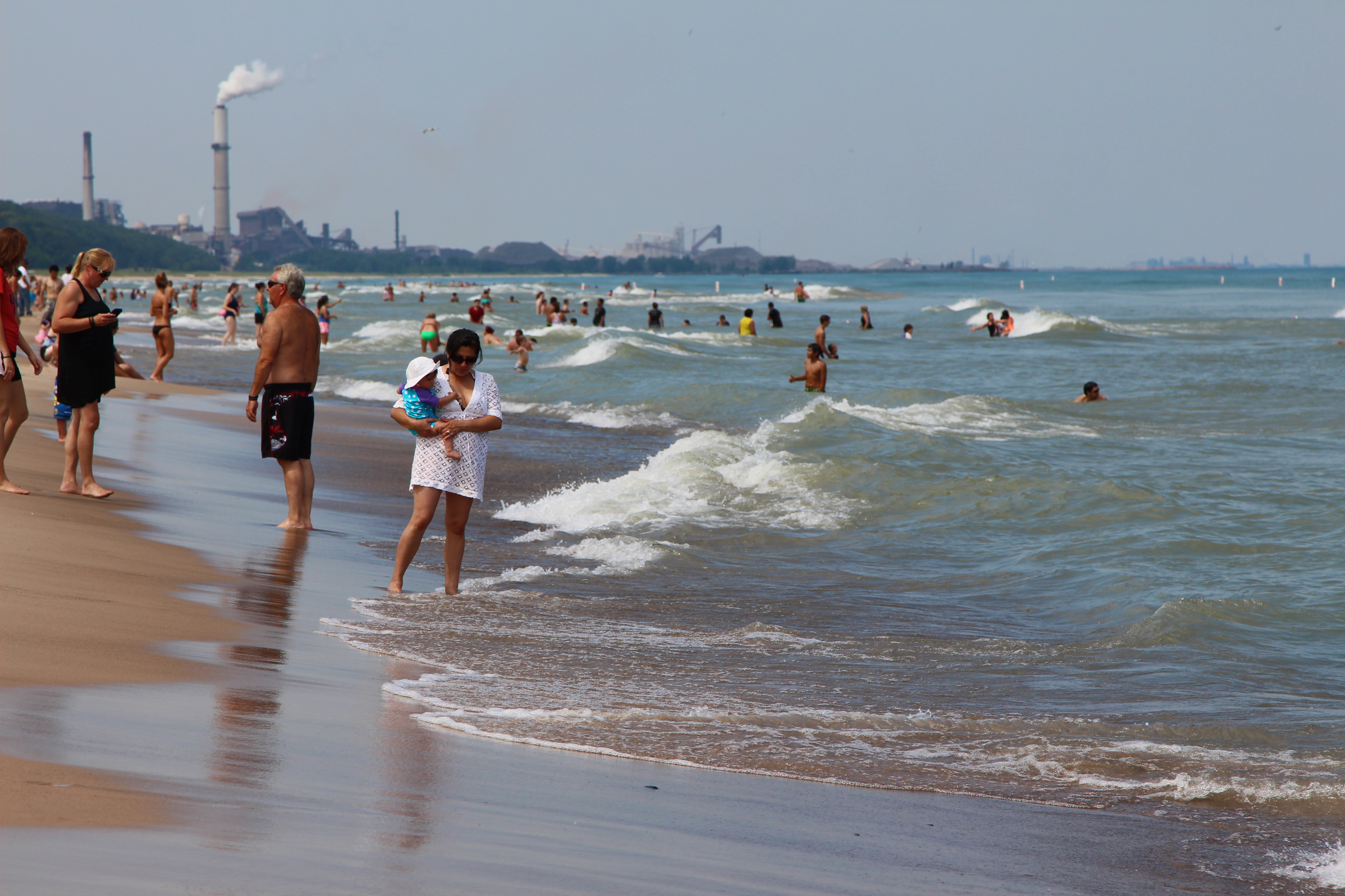 A popular spot on a warm Sunday. Looking west towards the smokestacks of ArcelorMIttal Steel in Burns Harbor IN, originally built by Bethlehem Steel in the 1960s.